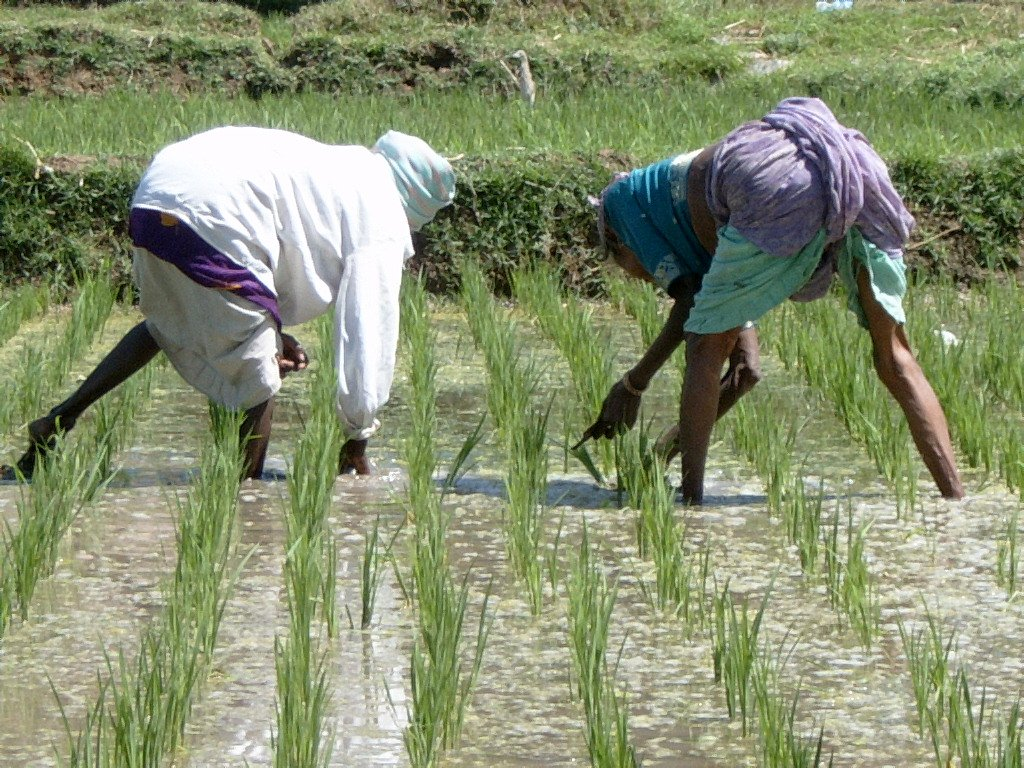 Man and woman in Karnataka working in a rice paddy. He is wearing a panche and a shirt, she a sari. Original caption: Rice is being replanted in paddies. Harvest will be after the monsoon. This is on the road to the big banyan.